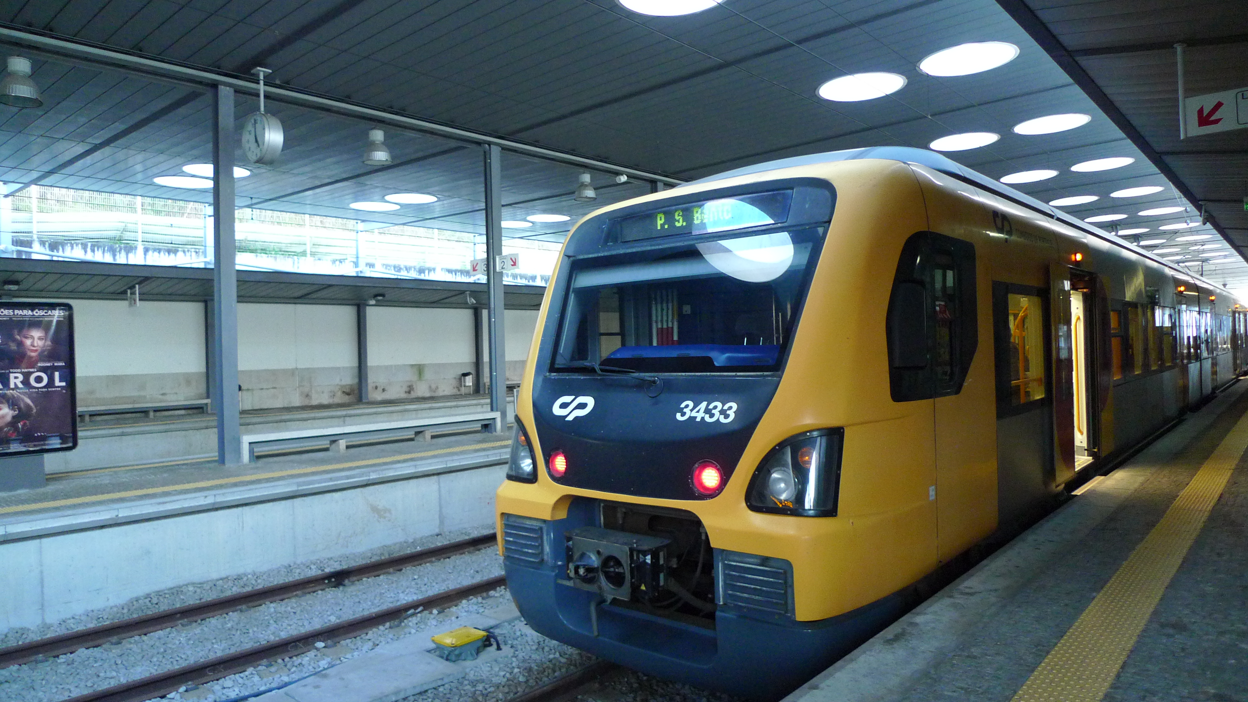 Portuguese train type 3400 at Guimarães train station, Portugal